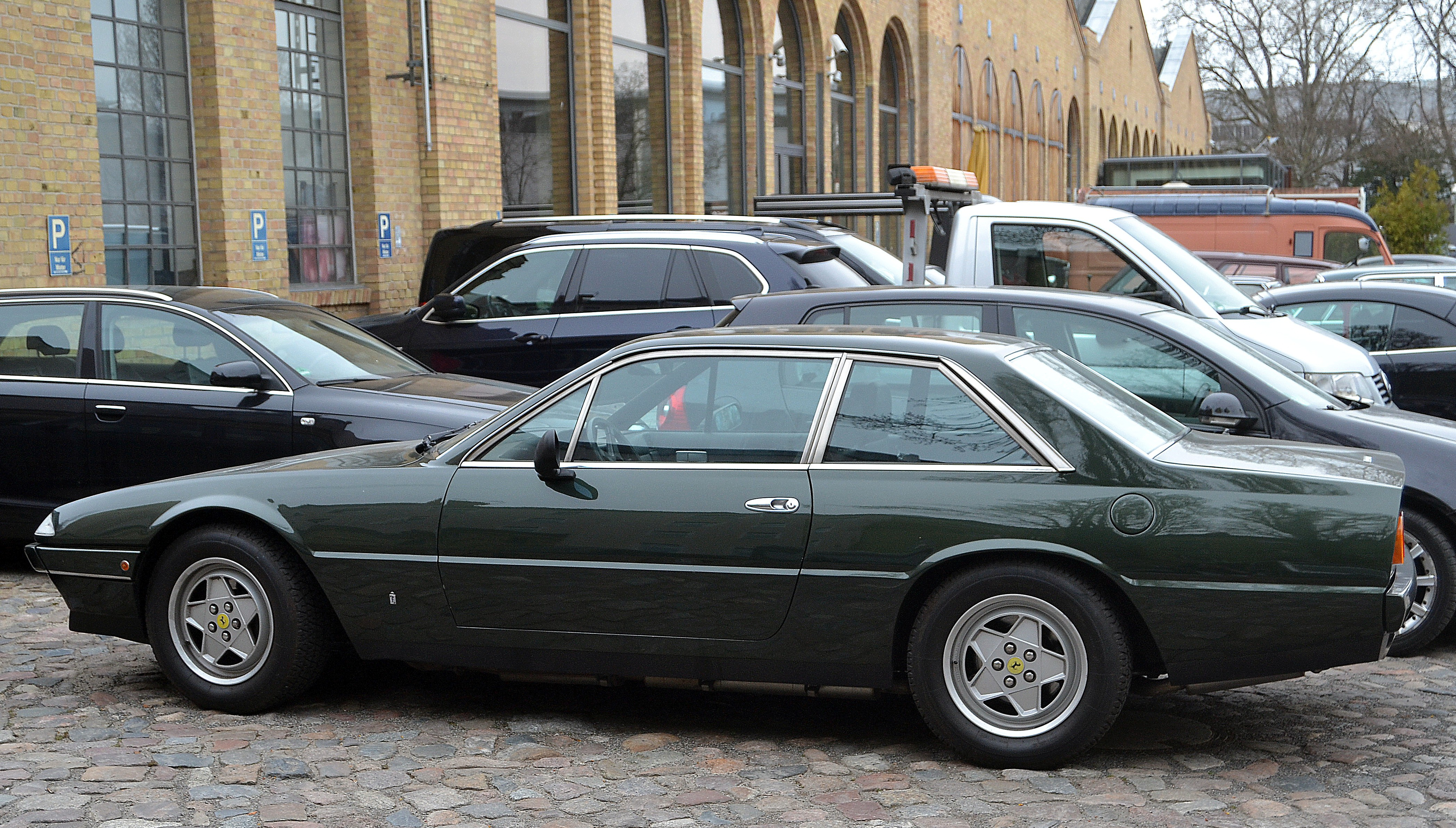 Ferrari 412